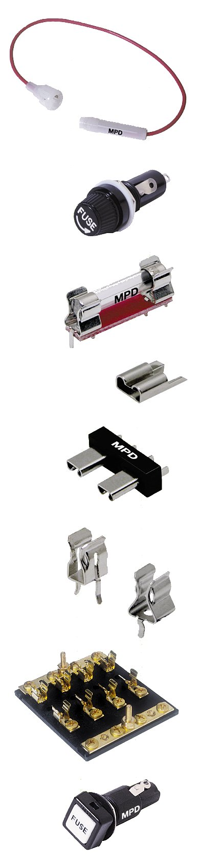 Various fuseholders